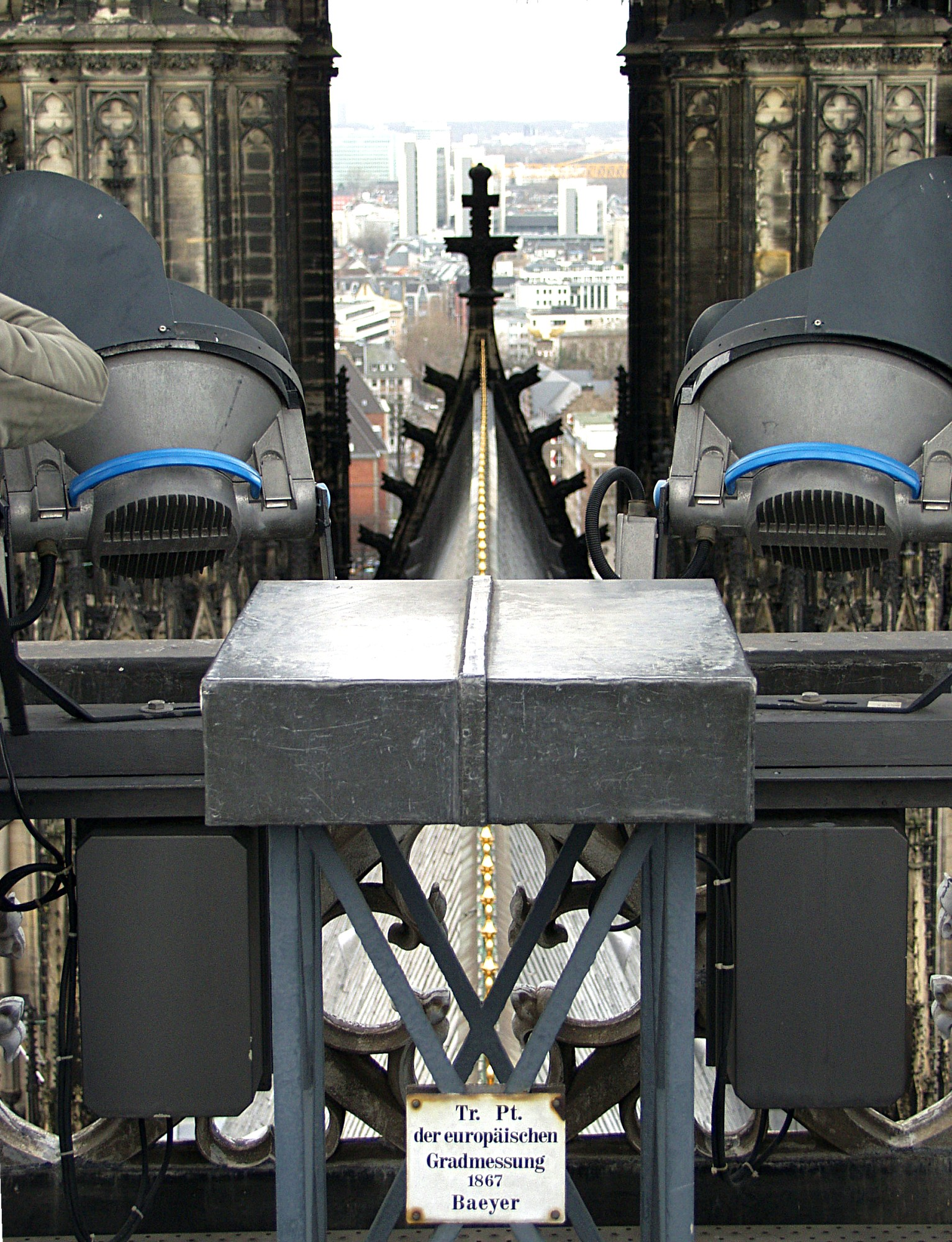 Historical triangulation station for the European Grade Measurement (Johann Jacob Baeyer 1867) at the crossing tower of Cologne Cathedral